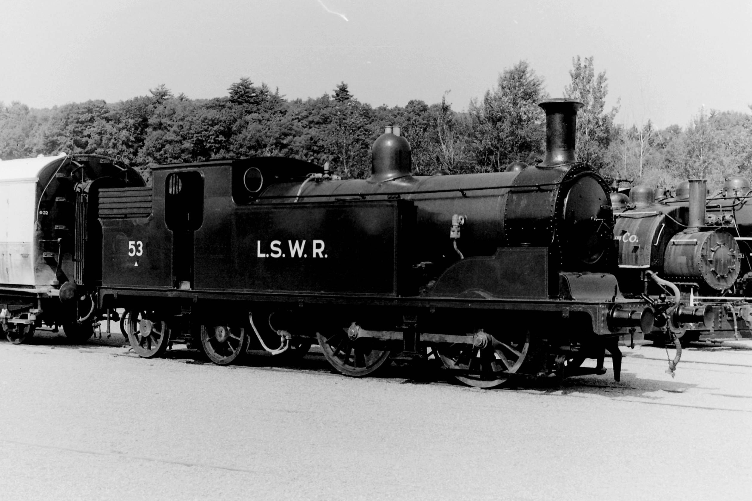 London & South Western Class "M7" 0-4-4T No.53 at Steamtown, Bellows Falls, Vermont 8/70.